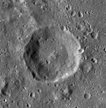 Kapteyn lunar crater - LRO WAC mosaic